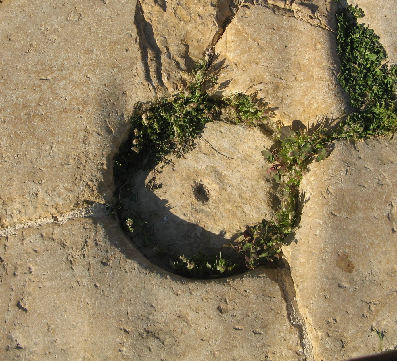 Roman Manhole Cover in Gerasa / Jordan